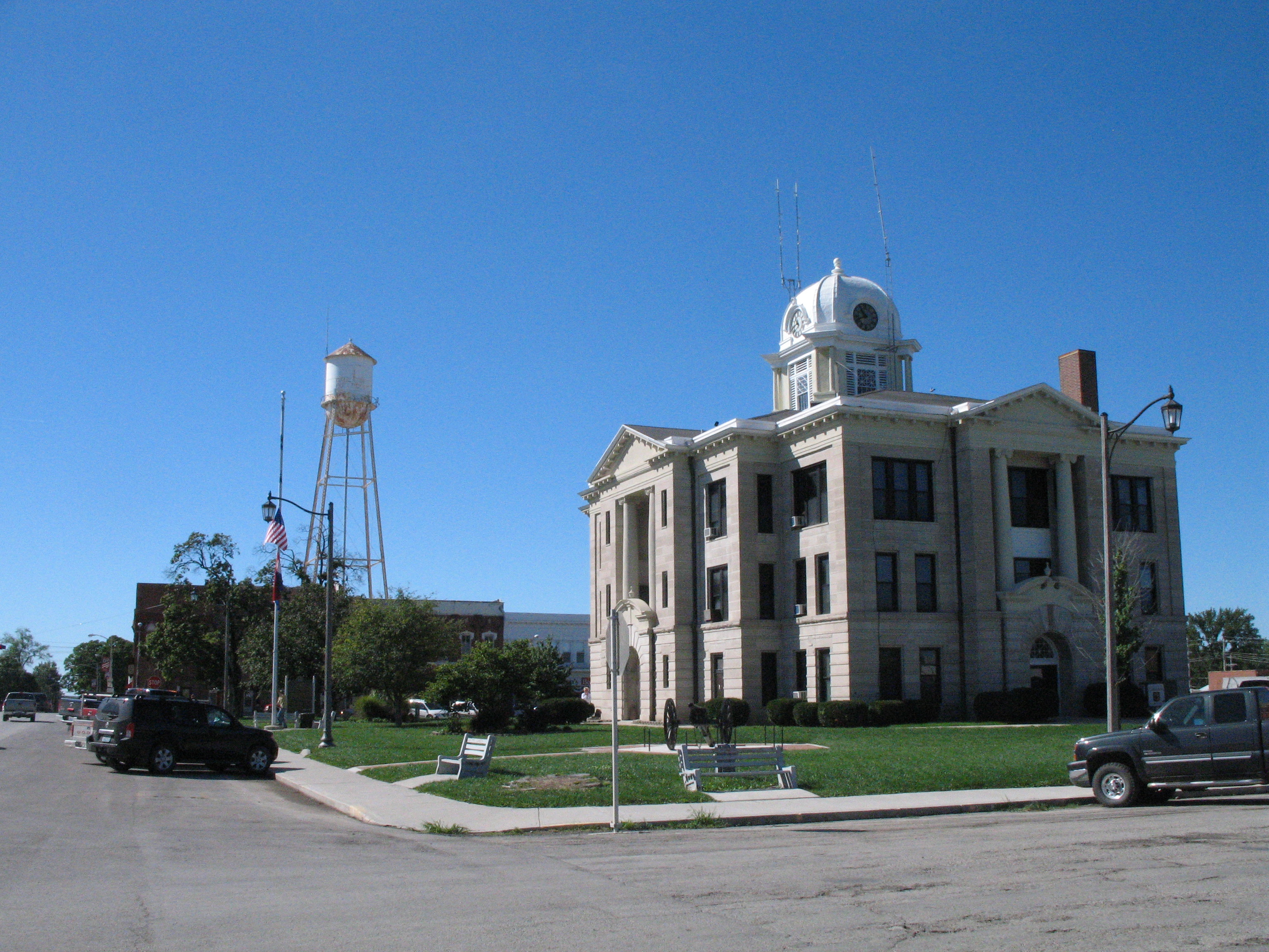 Daviess County, Missouri courthouse in Gallatin, Missouri in September, 2007.